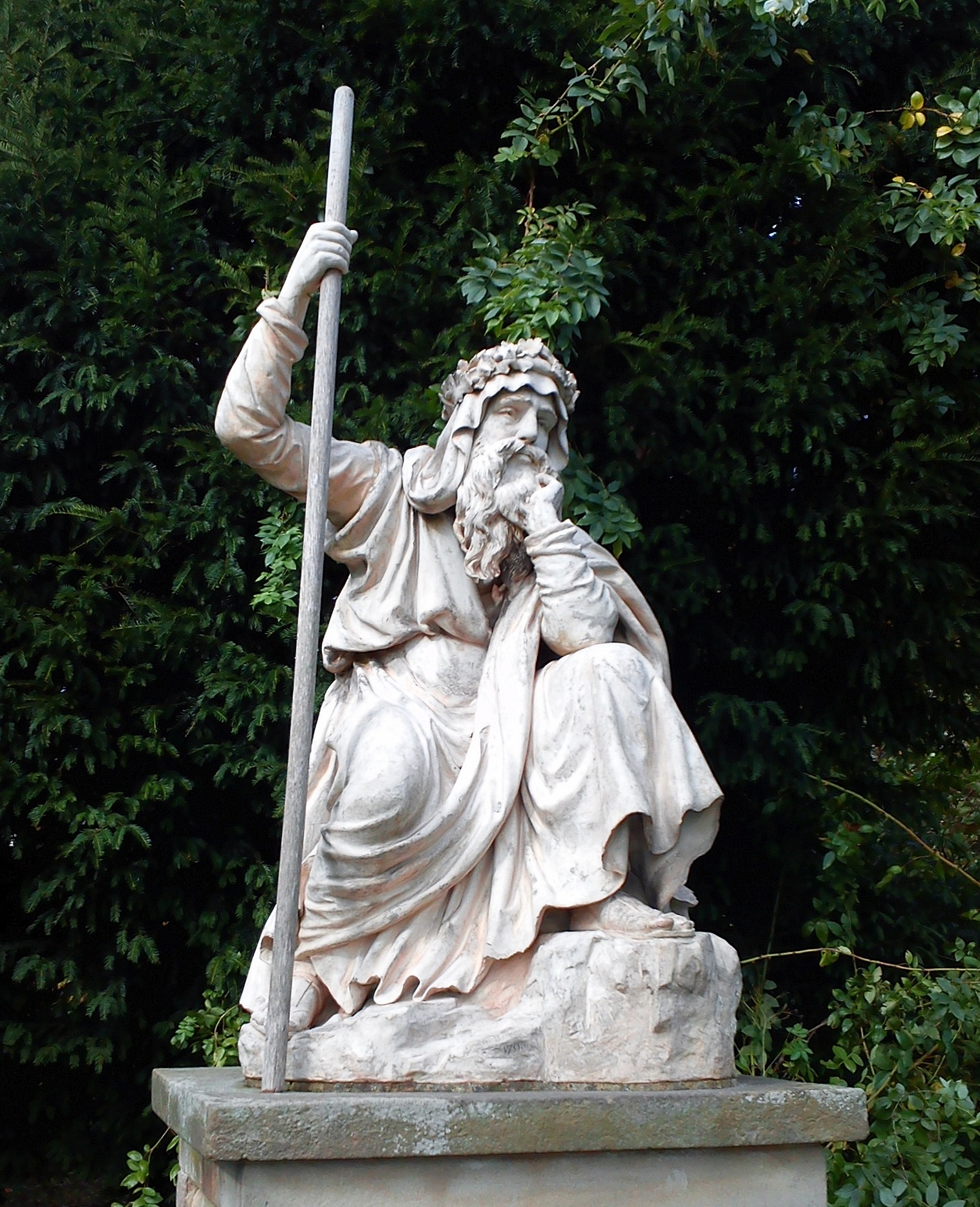 Croome Park, Worcs: Druid statue in the park